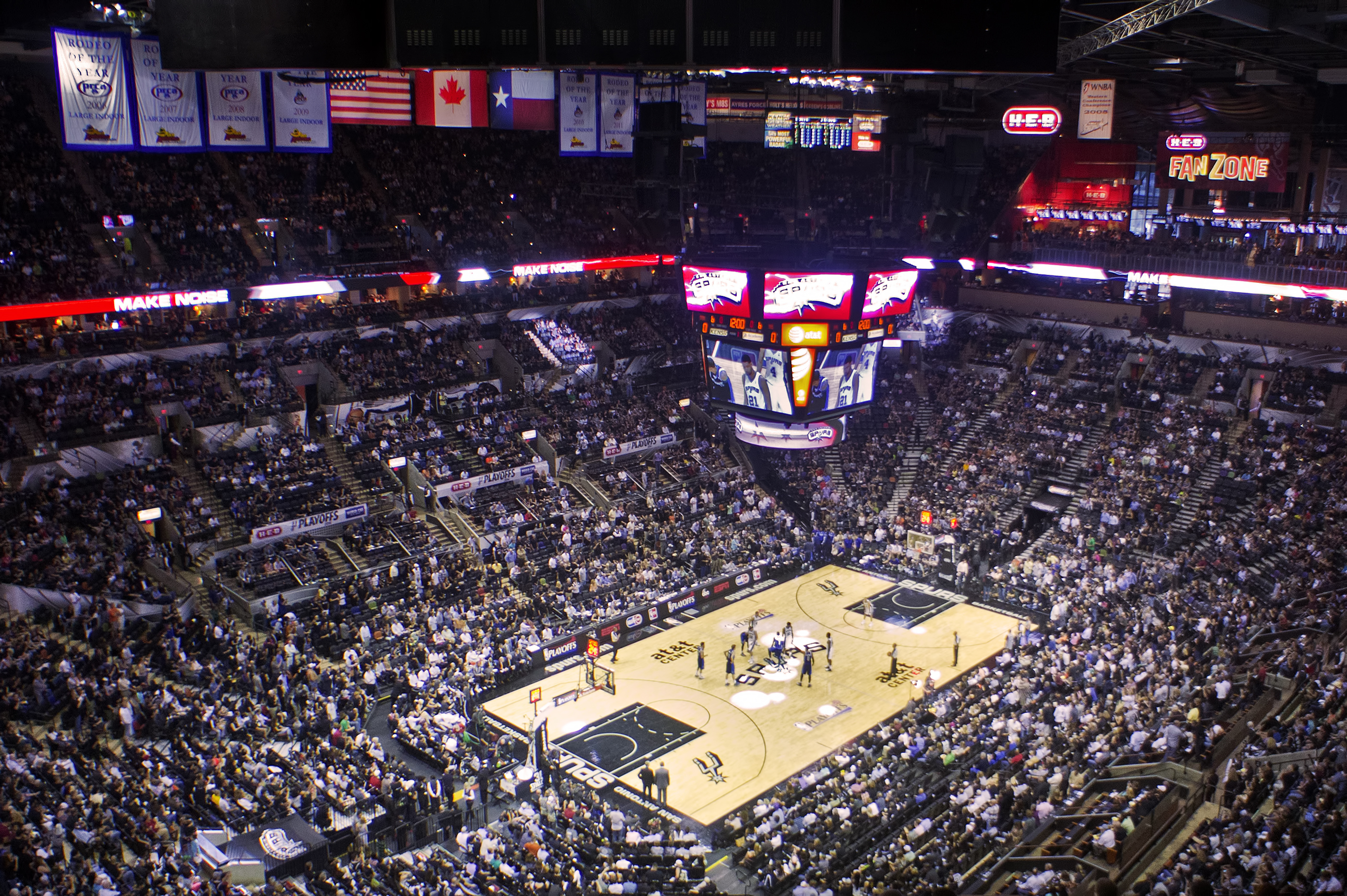 NBA Playoffs Dallas Mavericks vs. San Antonio Spurs AT&T Center San Antonio Texas